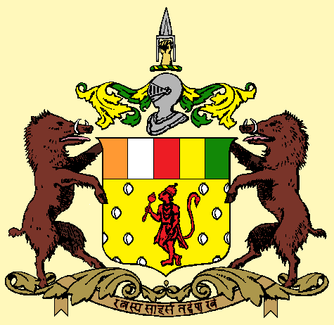 Ratlam State Coat of Arms; Motto: Ratnasya sahasam tadvamsha ratnam This work is in the public domain in India because its term of copyright has expired. The Indian Copyright Act applies in India, to works first published in India. According to The Indian Copyright Act, 1957 (Chapter V Section 25), Anonymous works, photographs, cinematographic works, sound recordings, government works, and works of corporate authorship or of international organizations enter the public domain 60 years after the date on which they were first published, counted from the beginning of the following calendar year (ie. as of 2020, works published prior to 1 January 1960 are considered public domain). Posthumous works (other than those above) enter the public domain after 60 years from publication date. Any other kind of work enters the public domain 60 years after the author's death. Text of laws, judicial opinions, and other government reports are free from copyright. Photographs created before 1960 are in the public domain 50 years after creation, as per the Copyright Act 1911. This file may not be in the public domain outside India. The creator and year of publication are essential information and must be provided. See Wikipedia:Public domain and Wikipedia:Copyrights for more details. This image shows a flag, a coat of arms, a seal or some other official insignia. The use of such symbols is restricted in many countries. These restrictions are independent of the copyright status.